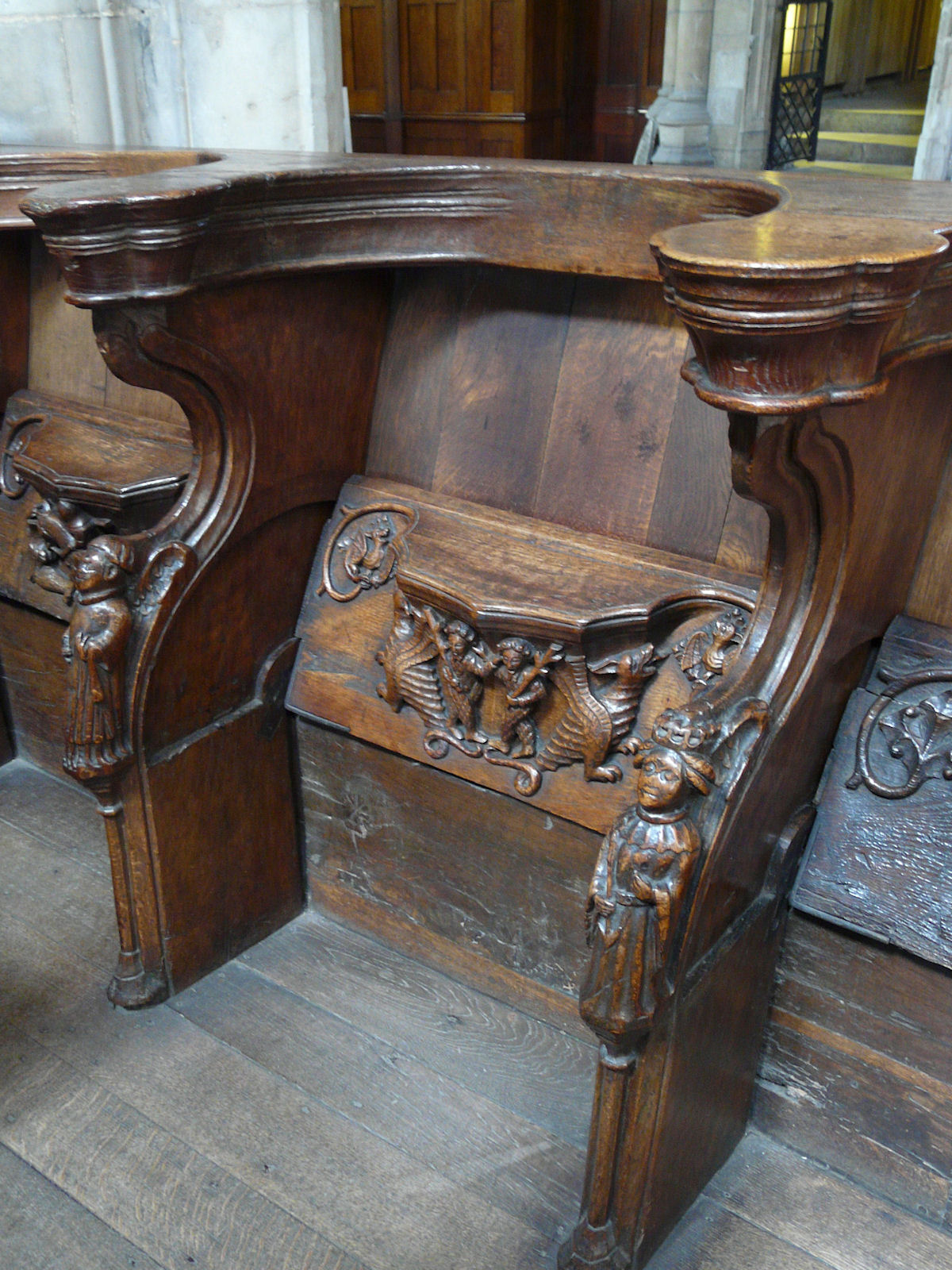 St. Mary's Church, Beverley, East Riding of Yorkshire, England.